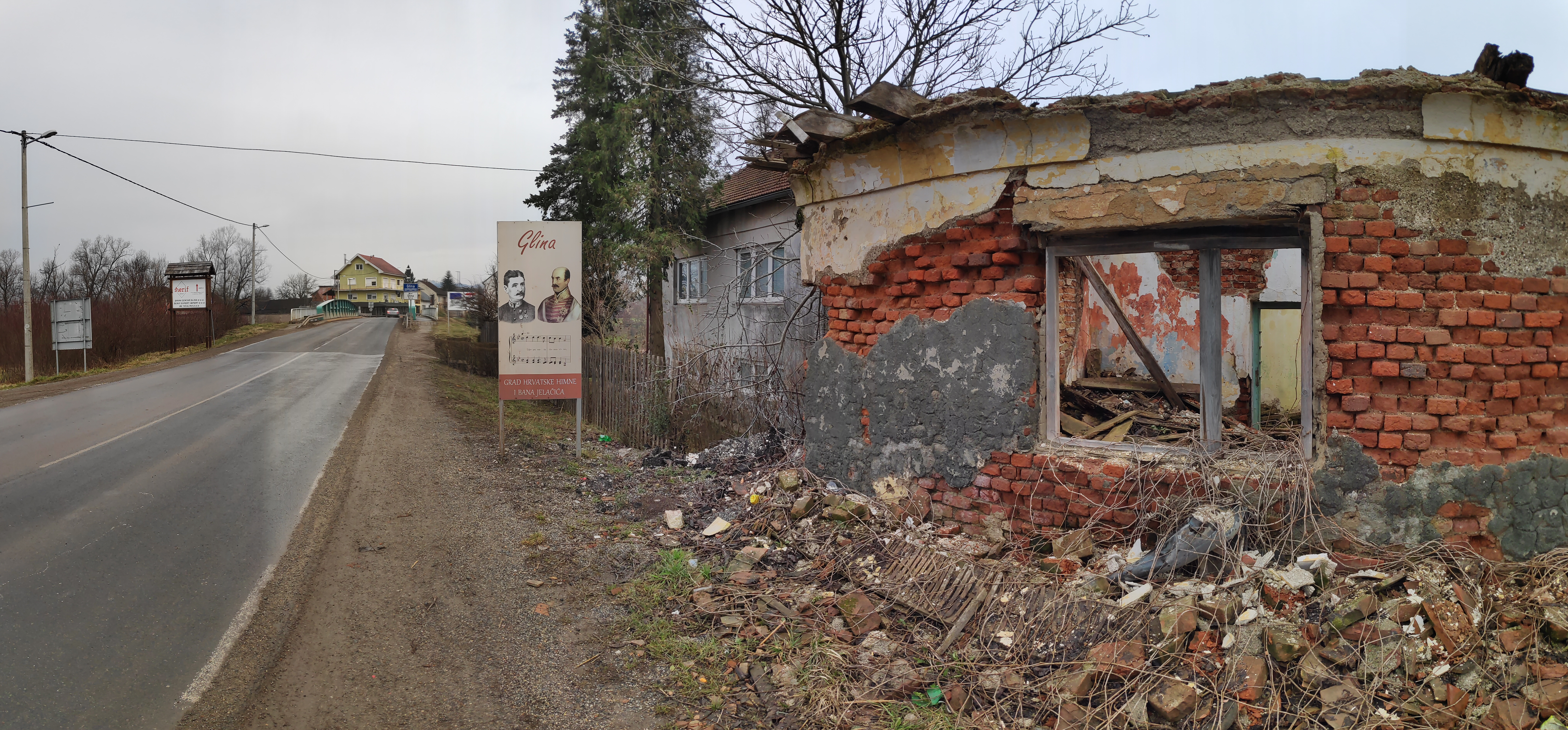 Glina, Sisak-moslovina county, Croatia. With destroyed Serbian house from war 1991-1995.